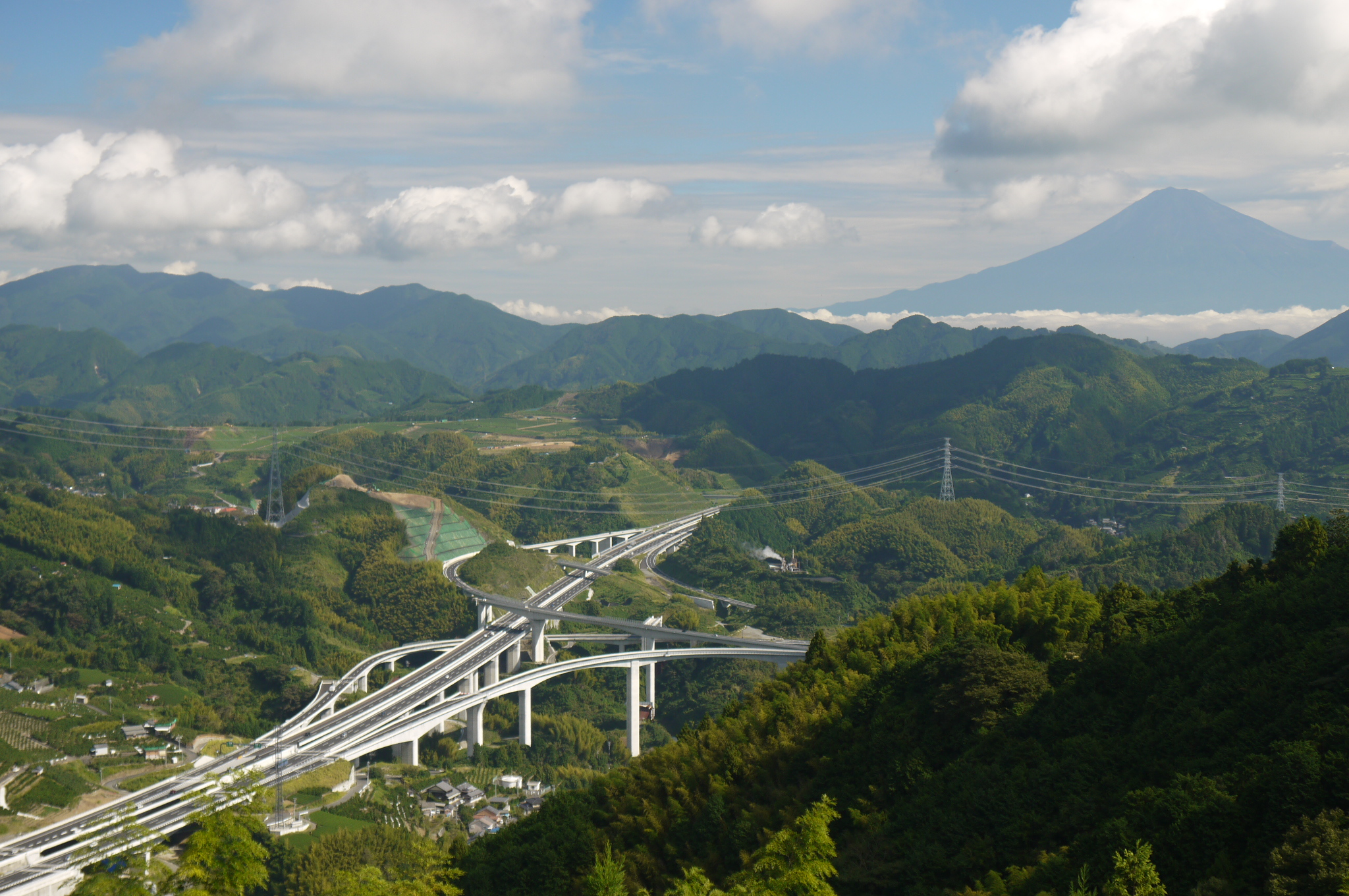 Shin-Shimizu JCT as seen from the SW in Shizuoka.